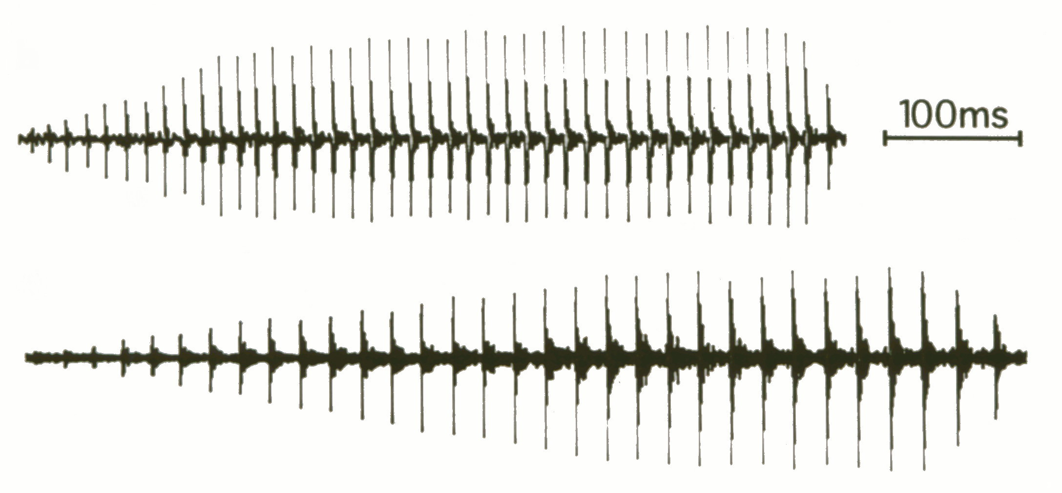 Sound images (oscillograms) of two advertisement calls at 24.5°C (above) and 14.0°C water temperature (below).